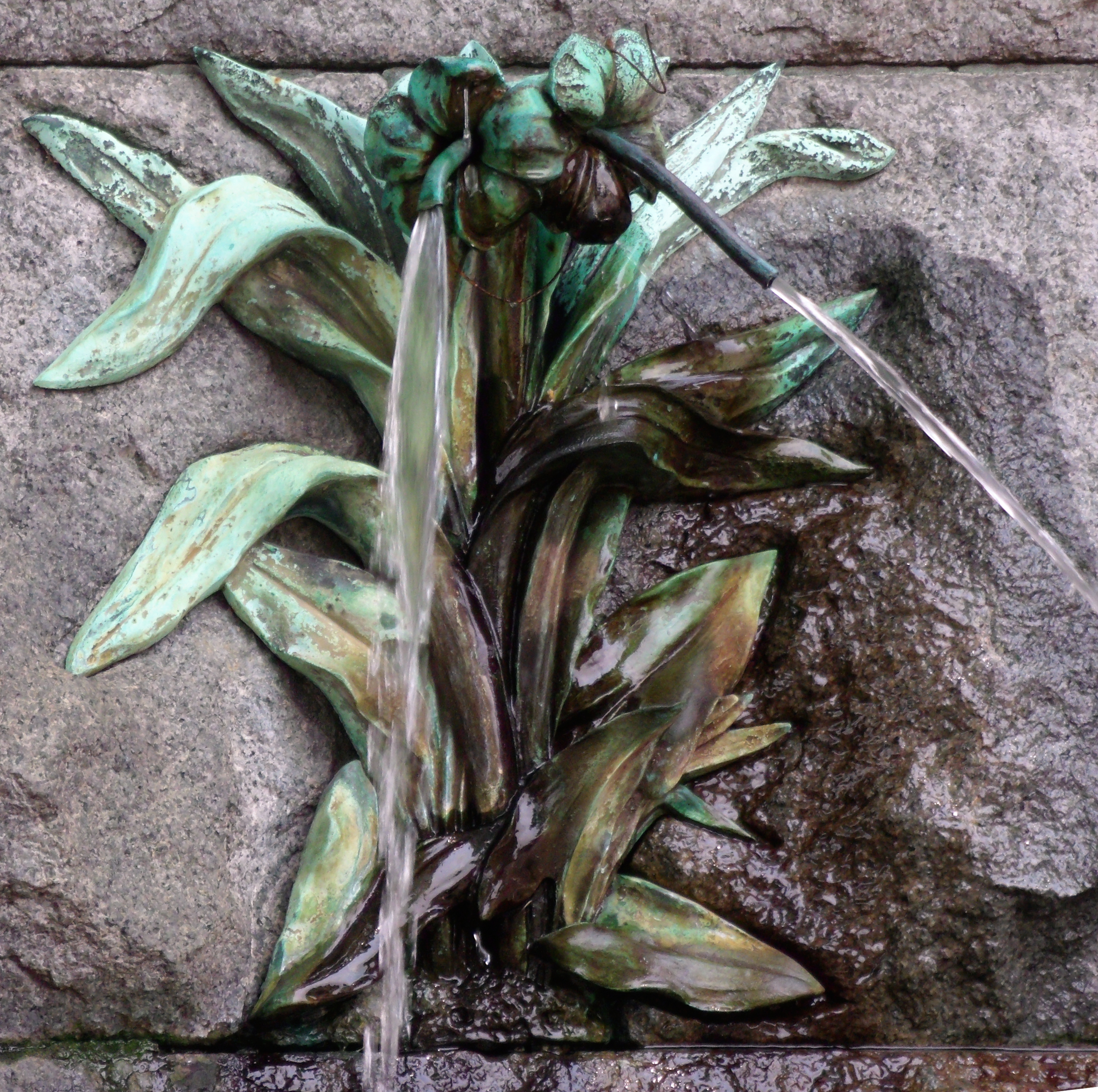 Detail of one of the side spouts of the Welton Fountain at the east end of the green in Waterbury, Connecticut.